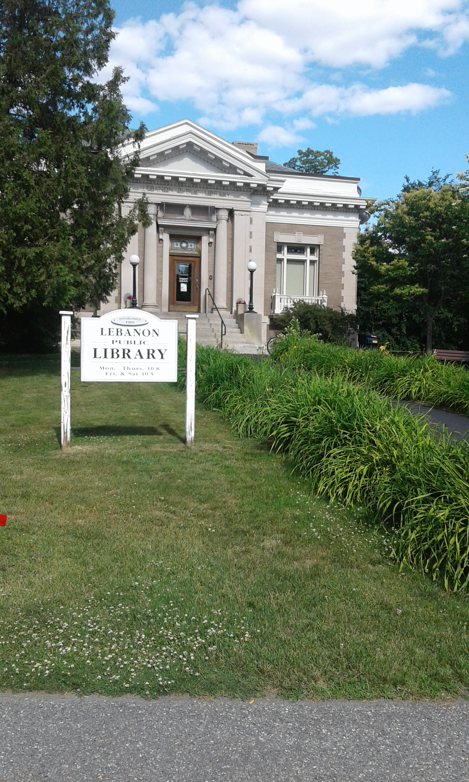 Lebanon Public Library--funded by The Carnegie Foundation--in downtown Lebanon, New Hampshire.